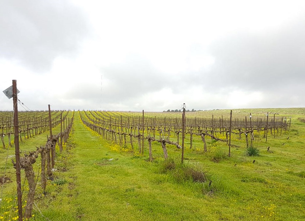 כרם יהונתן